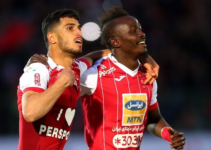 Ali Alipour and Godwin Mensha in Persepolis and Peykan match.